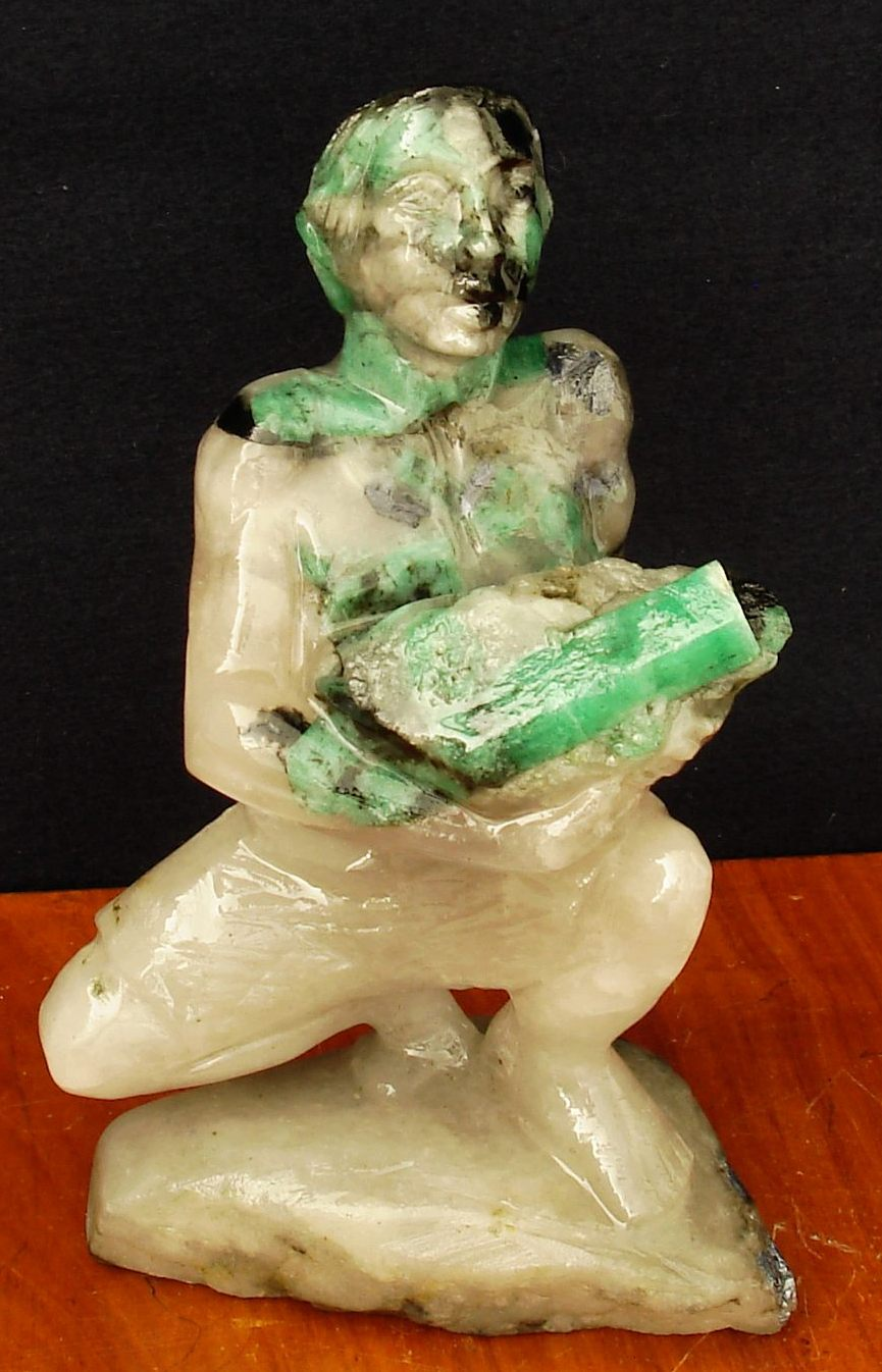 Man carrying an Emerald Crystal. Man made of milky quartz. The emerald is a natural quartz inclusion. There are also emerald and molybdenite inclusions at the head and the neck of the miner